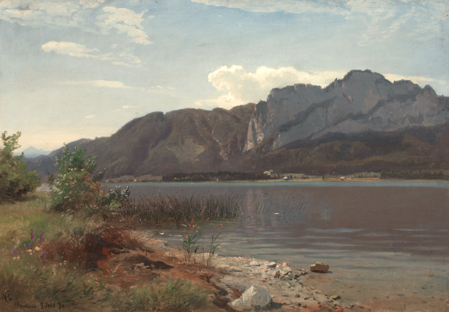 Painting "Landskap fra Drachenwand ved Mondsee" by Hans Gude, oil on canvas, original size 34x47cm